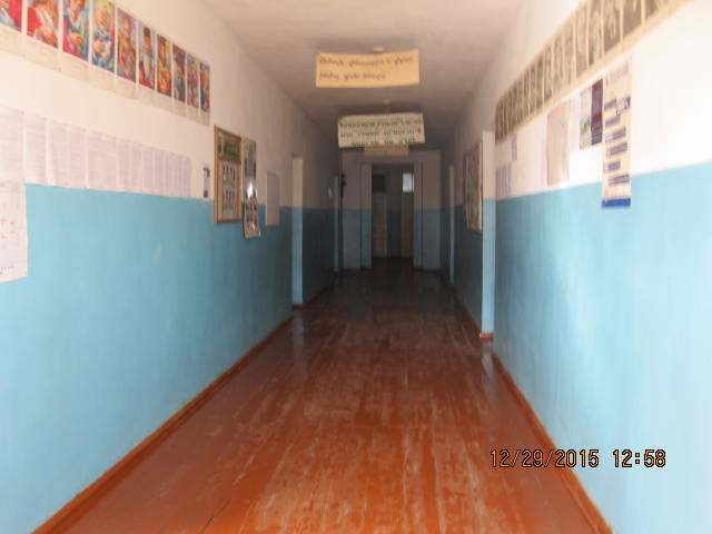 Դպրոցի միջանցքը